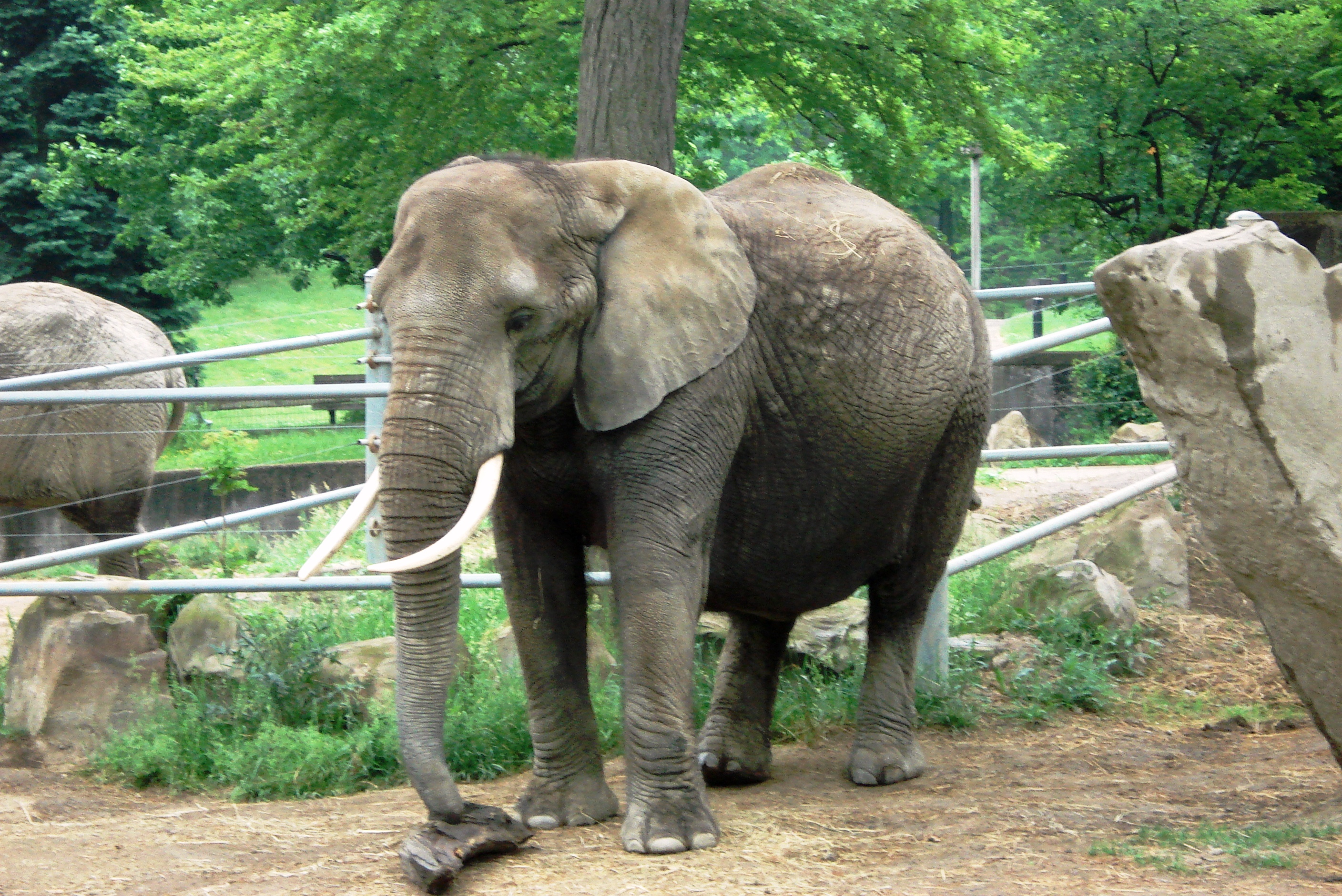 African elephant found at the cleveland zoo